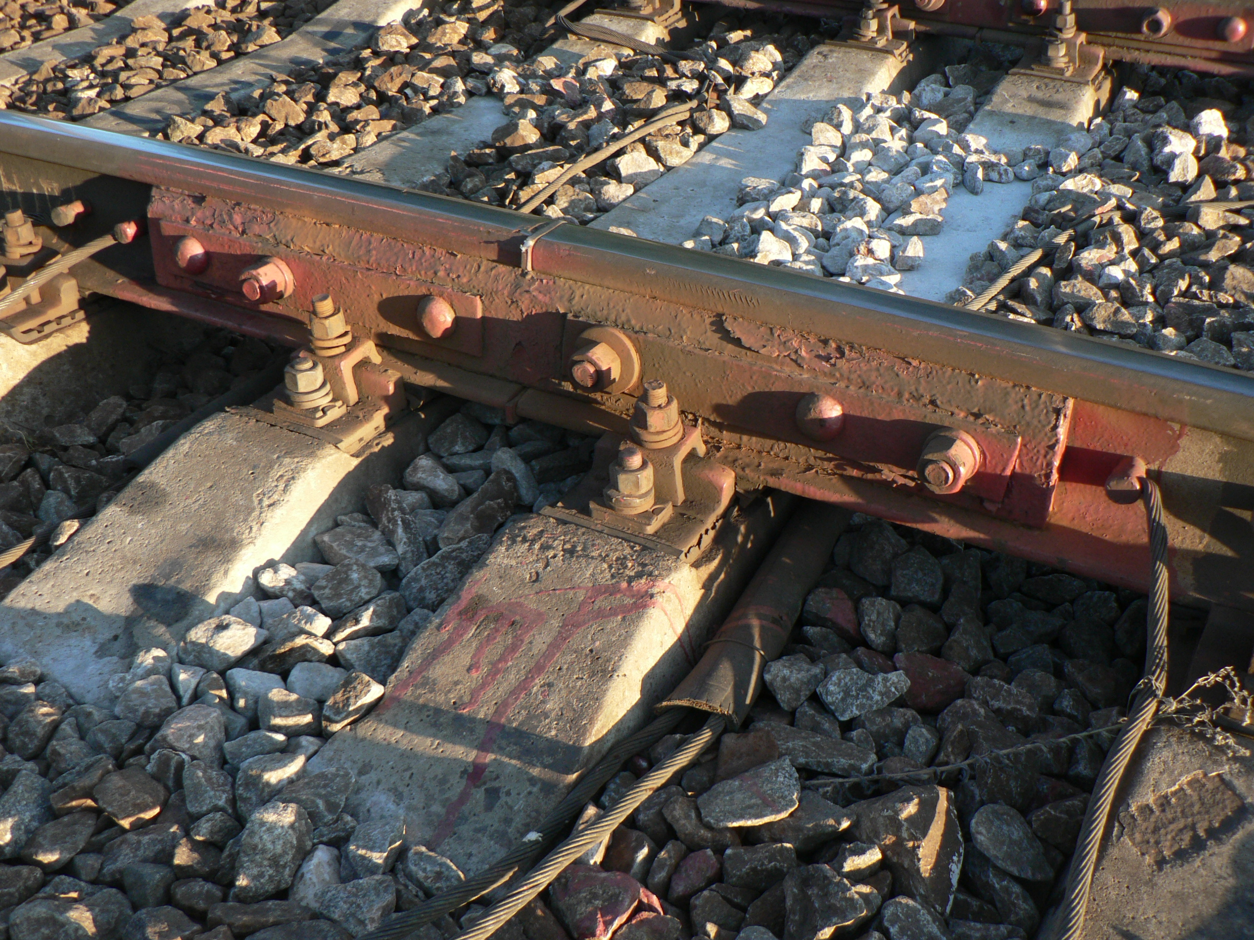 Isolated junction on rail track that is used for divide track into the autoblocking distances. Near Malino platform on Oktyabrskaya railway, Russia.